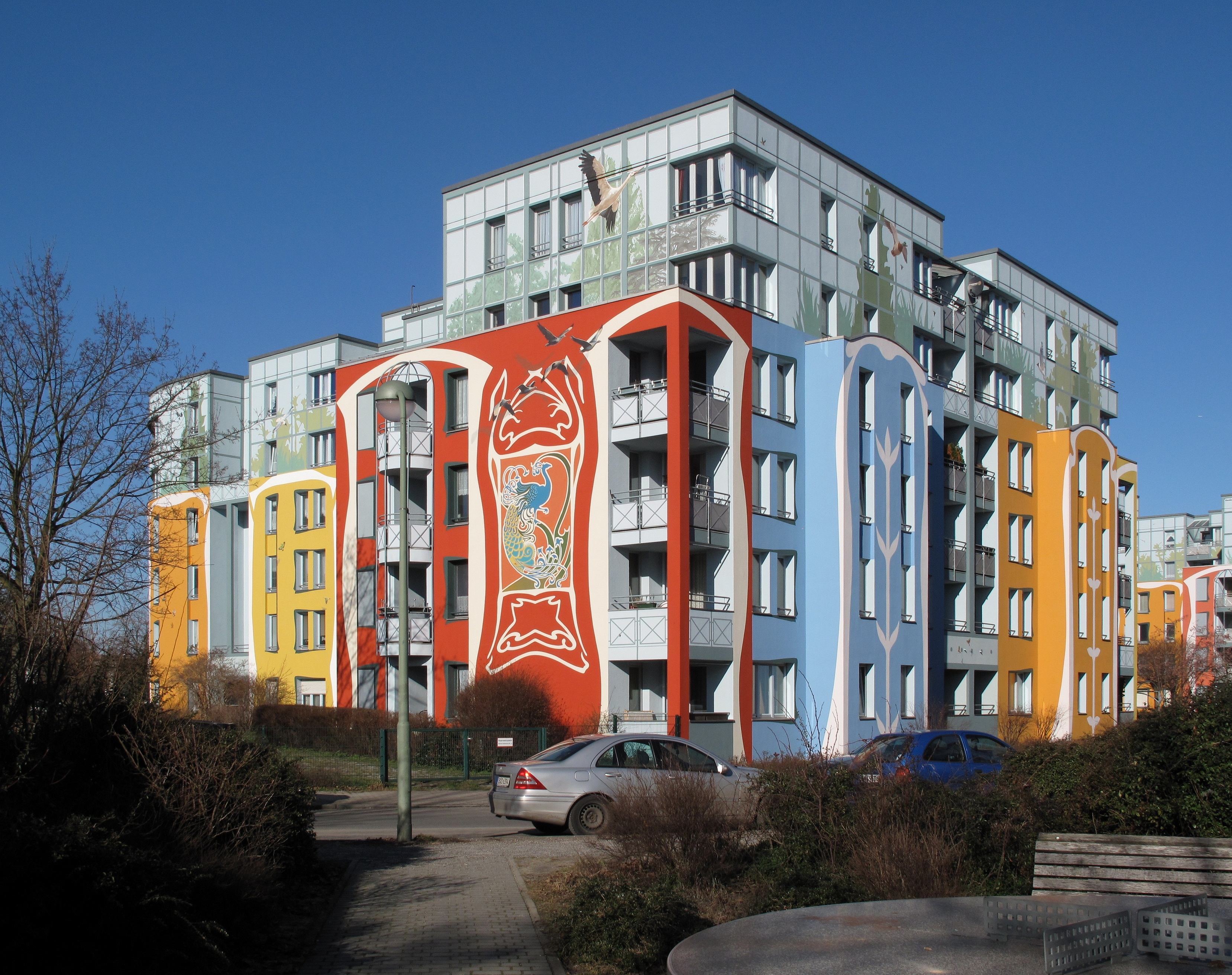 Voliere (birdhouse) is an art project in the High-Deck-Siedlung (housing estate) in Berlin-Neukölln dated from 2008 and 2009. Under the guidance of the french artist group CitéCréation there was painted the facade of a large block (ca. 5.000 m²) with more than 150 birds species as well as flowers and trees. Within the neighbourhood-management-projekt young adults of the quarter got apprenticeships.